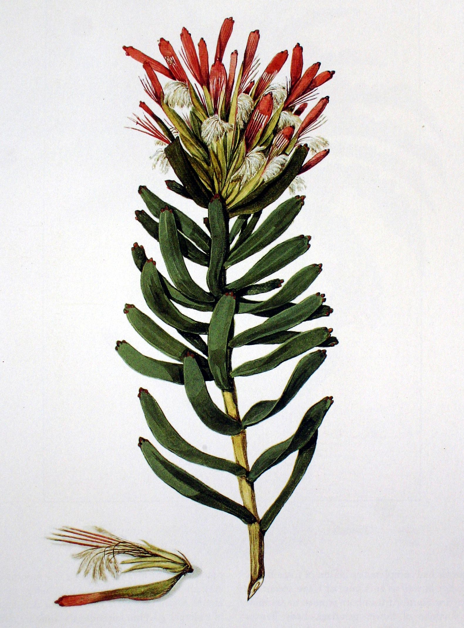 Mimetes cucullatus c1700 possibly by Heinrich Bernhard Oldenland/ Henrik Bernard Oldenland (1663-1697), watercolour